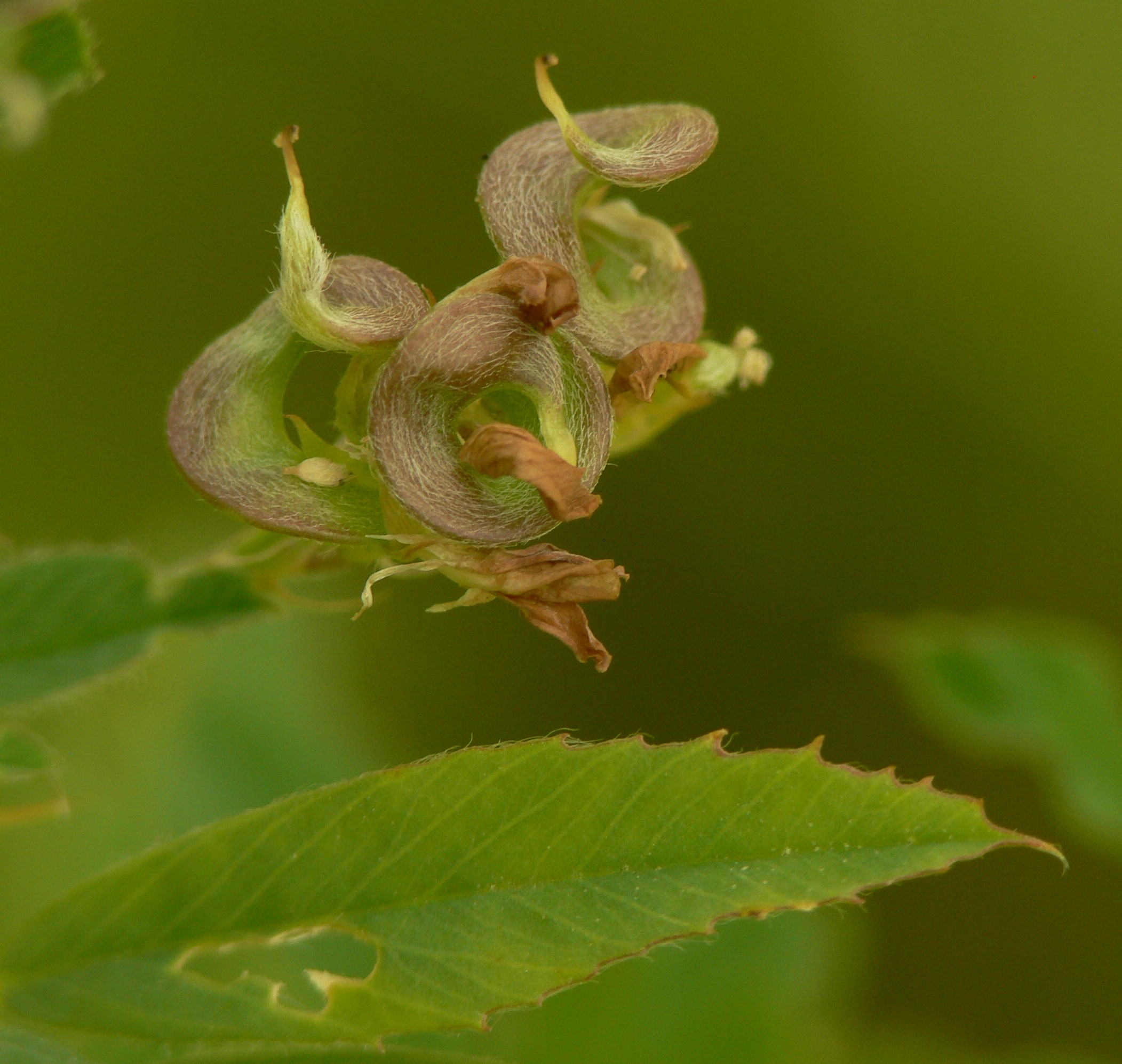 alfalfa, Medicago ×varia